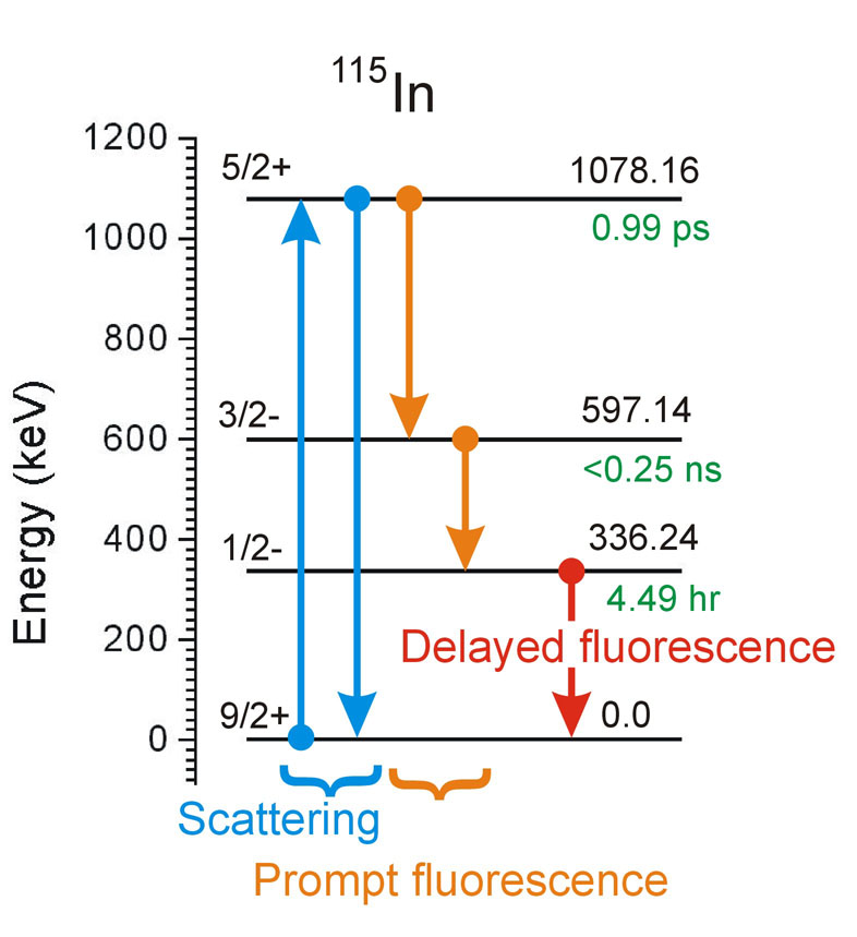 Made it myself, just for the page Induced gamma emission